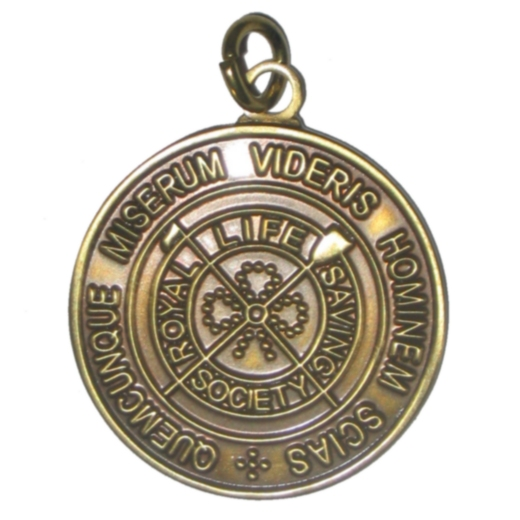 An RLSS Bronze Medallion.The medallion is inscribed "Quemcunque miserum videris hominem scias", which translates to "Whomever you see in distress, recognize his humanity." On the rear the candidate's name and year and month of achievement are engraved.